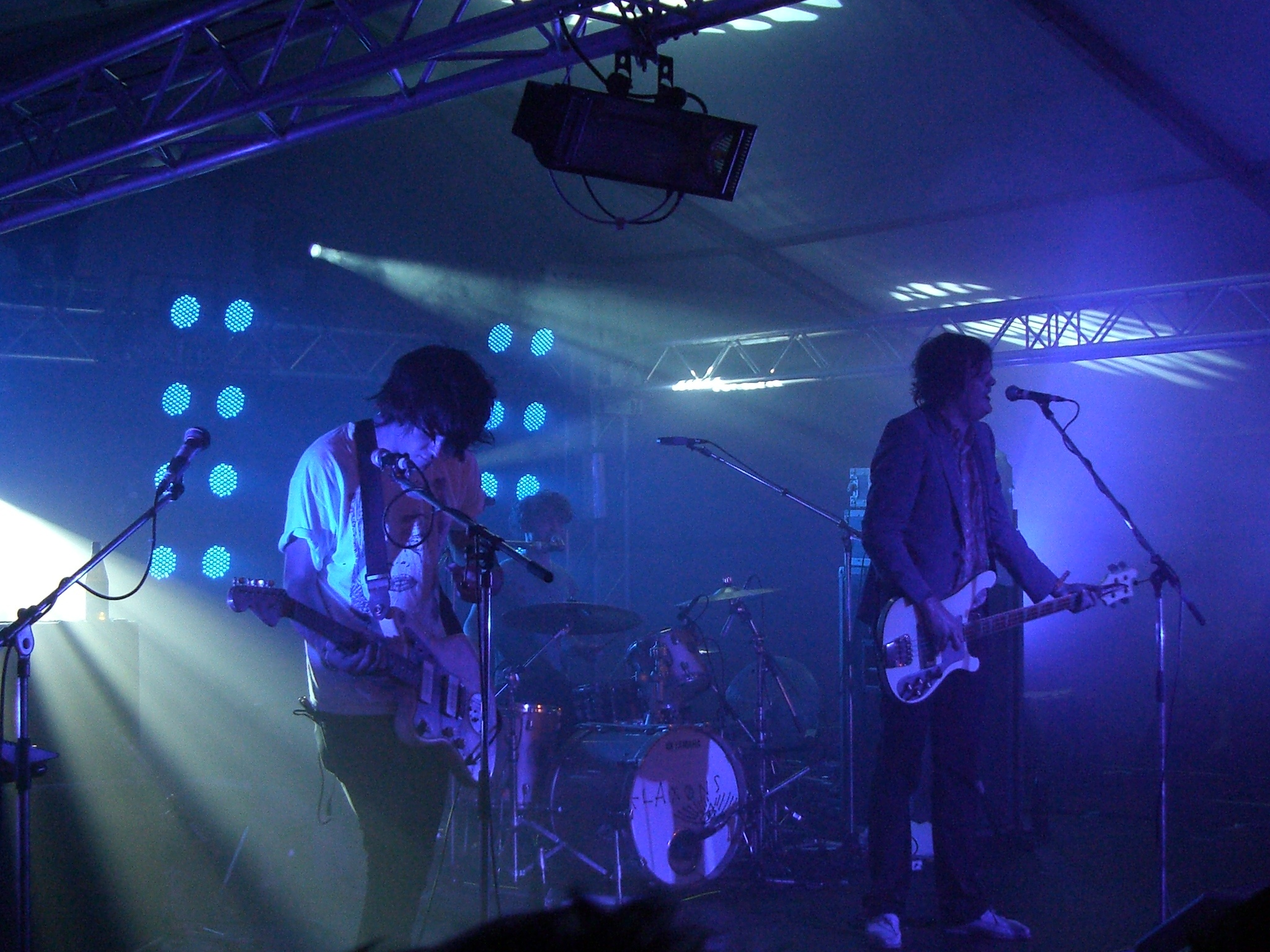 By Richard Wheeler (Zephyris) 2007.